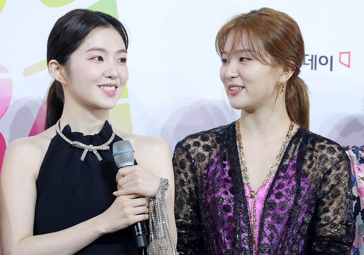 Bae Irene and Kang Seul-gi at the Soribada Awards blue carpet on August 23, 2019.